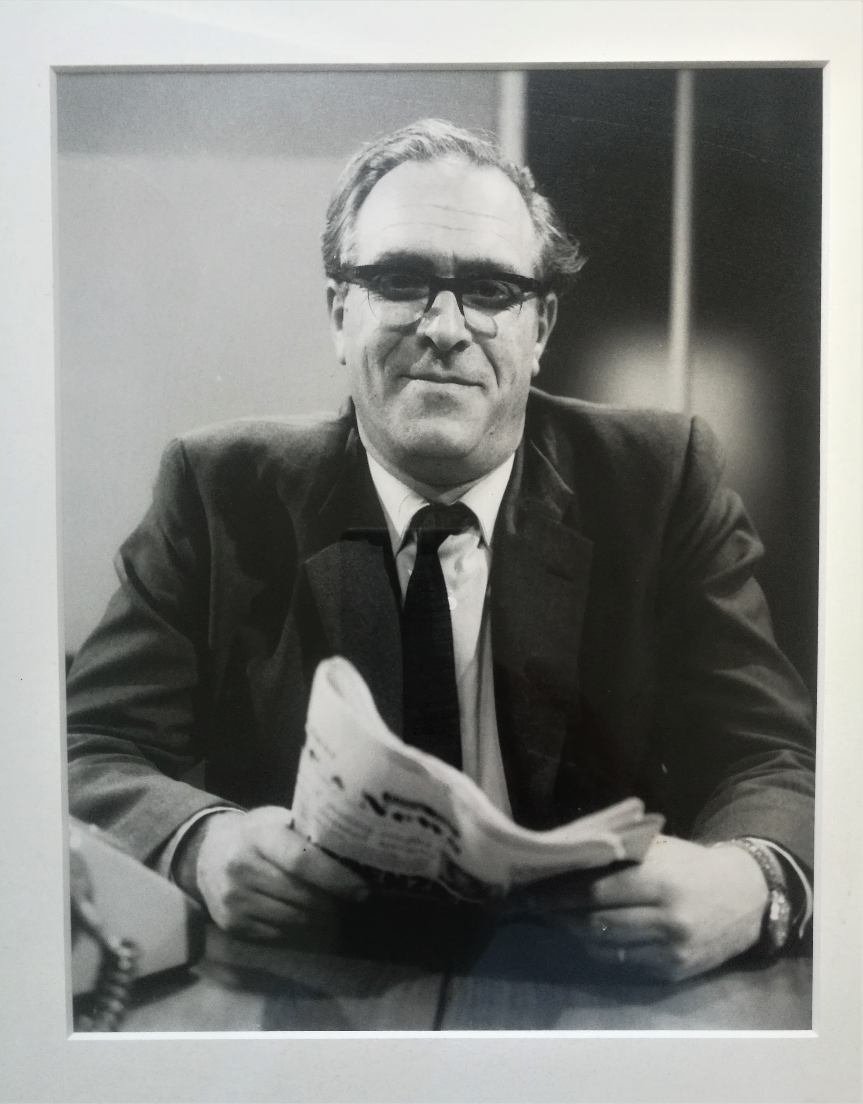 Pit corder picture